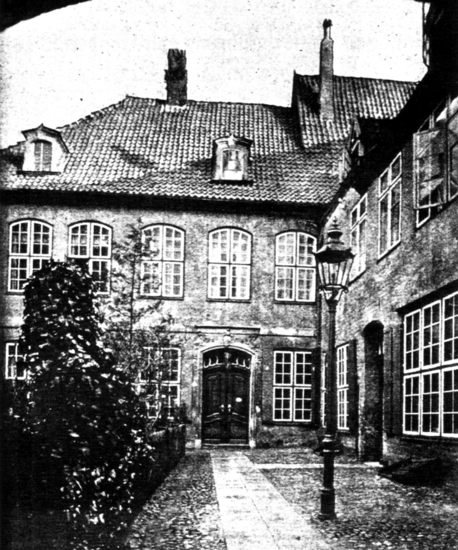 The former residence of the church superintendents in Lübeck, in the courtyard of the Wehde building complex (Mengstraße No. 8); destroyed in 1942